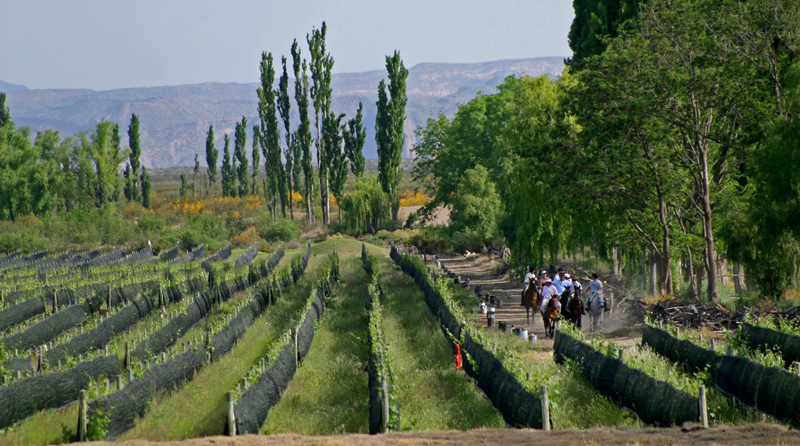 Algodon Wine Estates in San Rafael, Mendoza, Argentina. The estate encompasses over 2,050 acres of vineyards, orchards, water reserves, and tree-lined roads.